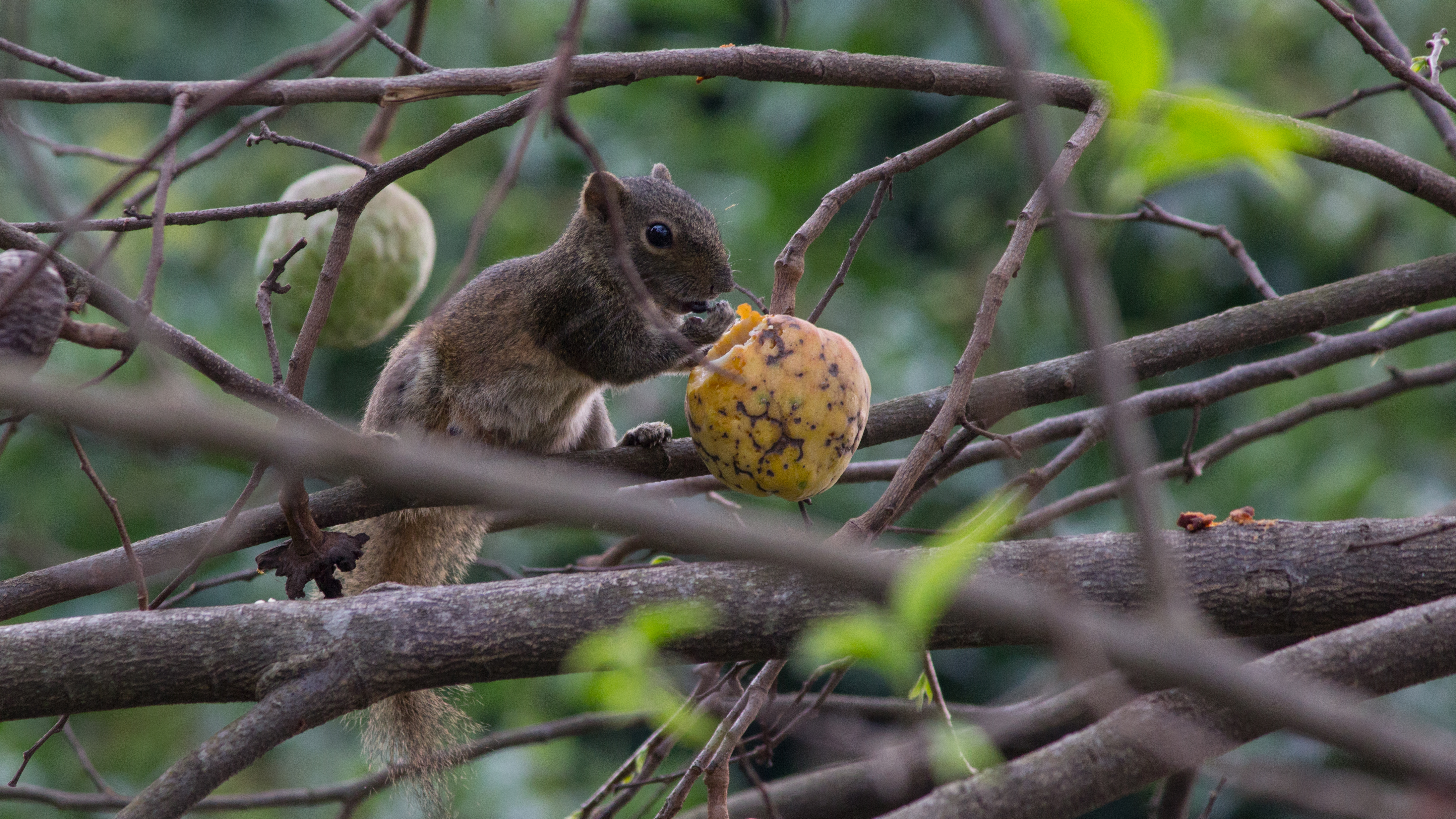 Hoary-bellied Himalayan Squirrel Callosciurus pygerythus eating the Sugar Apple is found in Jayanti village.